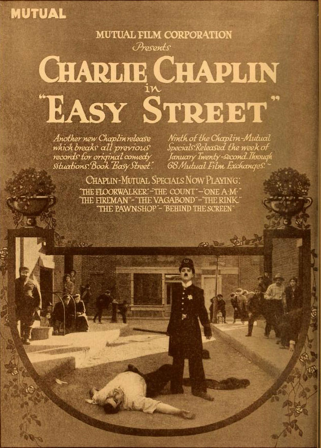 Advertisement in Moving Picture World